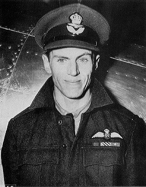 George Frederick "Buzz" Beurling, Canadian WWII ace.